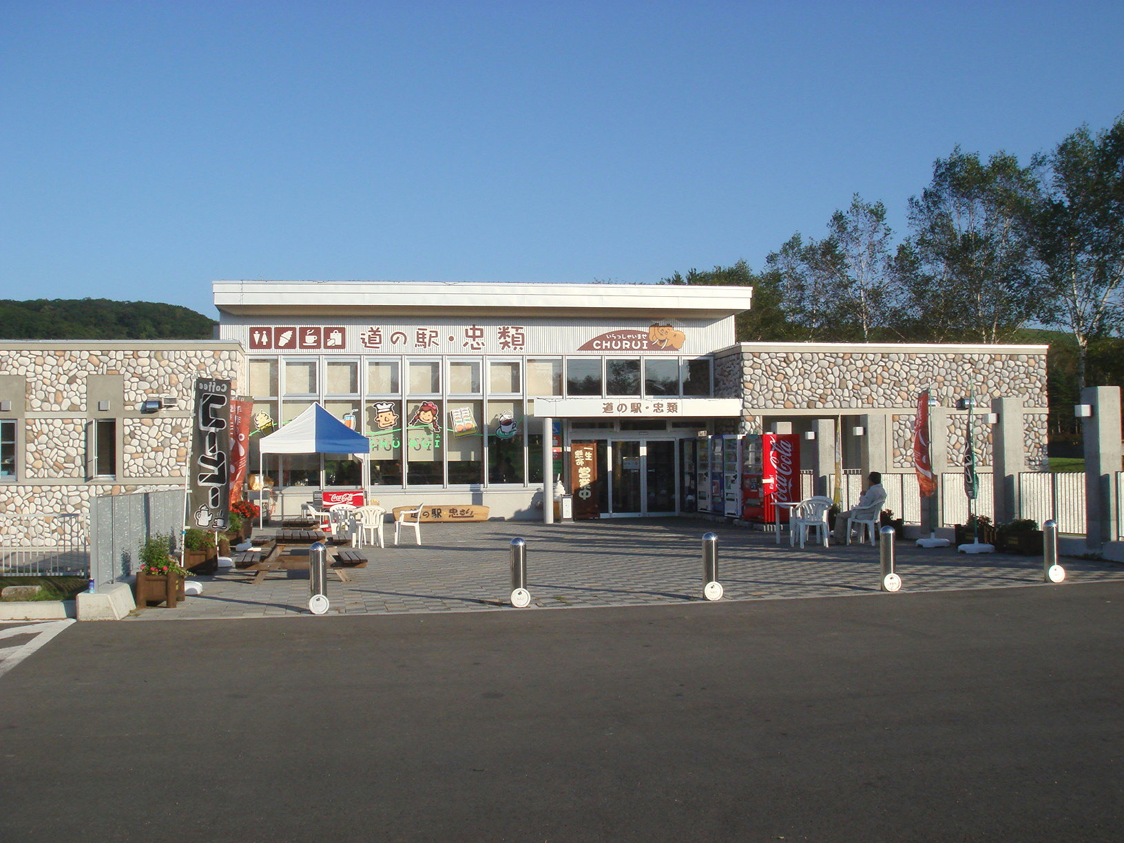 Michinoeki (Roadside Station) Churui in Makubetsu Town, Hokkaido, Japan